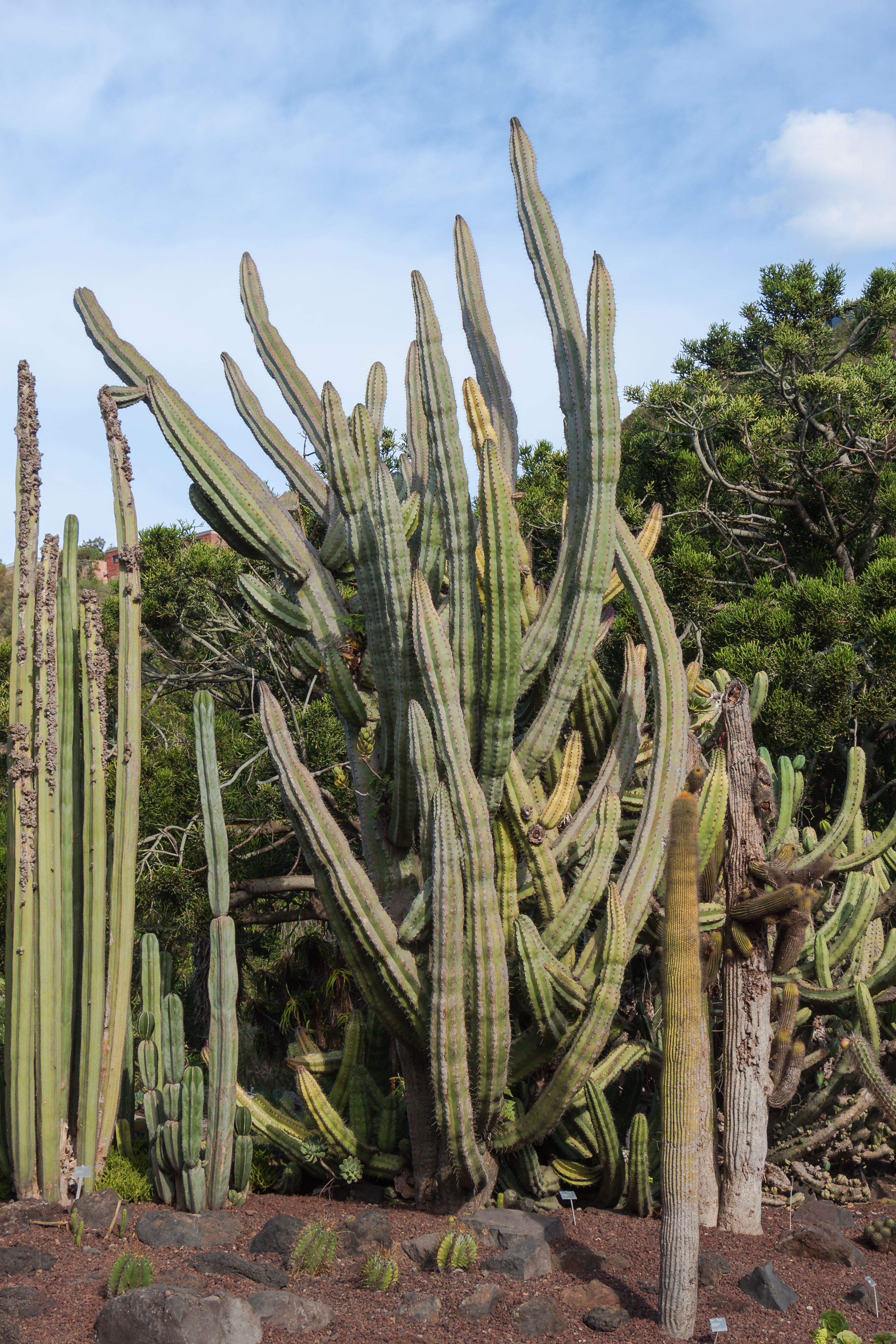 Stenocereus griseus (Haw.) Buxb., Mexican Organ Pipe; habitus; Jardín Botánico Canario Viera y Clavijo, Gran Canaria, Canary Islands, Spain.